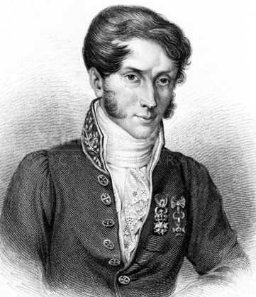 Charles Dupin (1784-1873), french mathematician and statesman. This graphics was in the past thought to depict Charles Joseph Minard (see here )